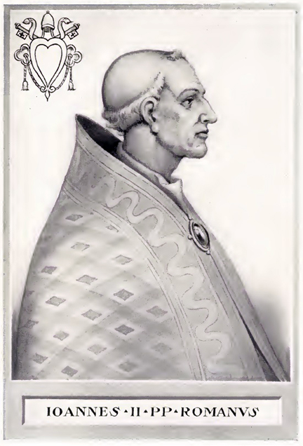 This illustration is from The Lives and Times of the Popes by Chevalier Artaud de Montor, New York: The Catholic Publication Society of America, 1911. It was originally published in 1842.